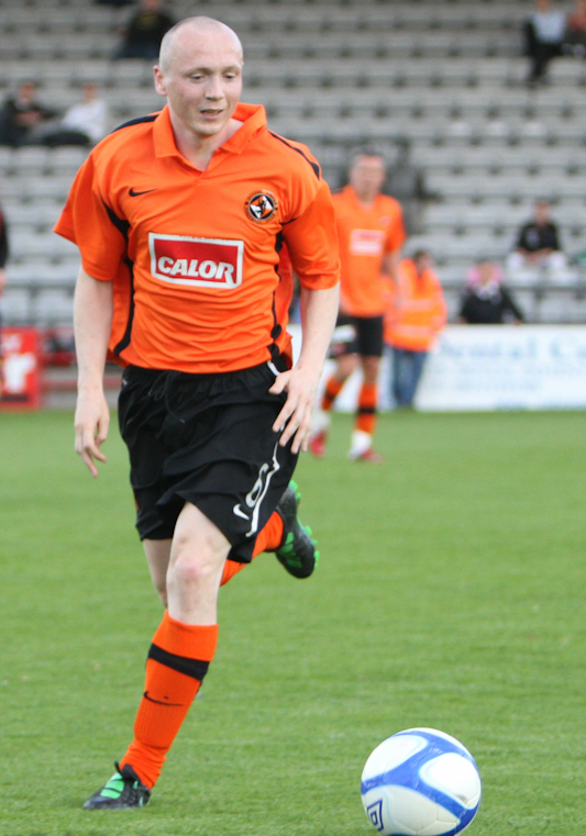 Willo Flood from Bohemians V Dundee United (23 of 34)